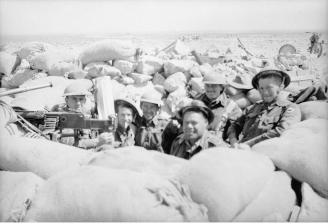 Soldiers of the Australian 2/48th Battalion man a defensive position near Tobruk in 1941